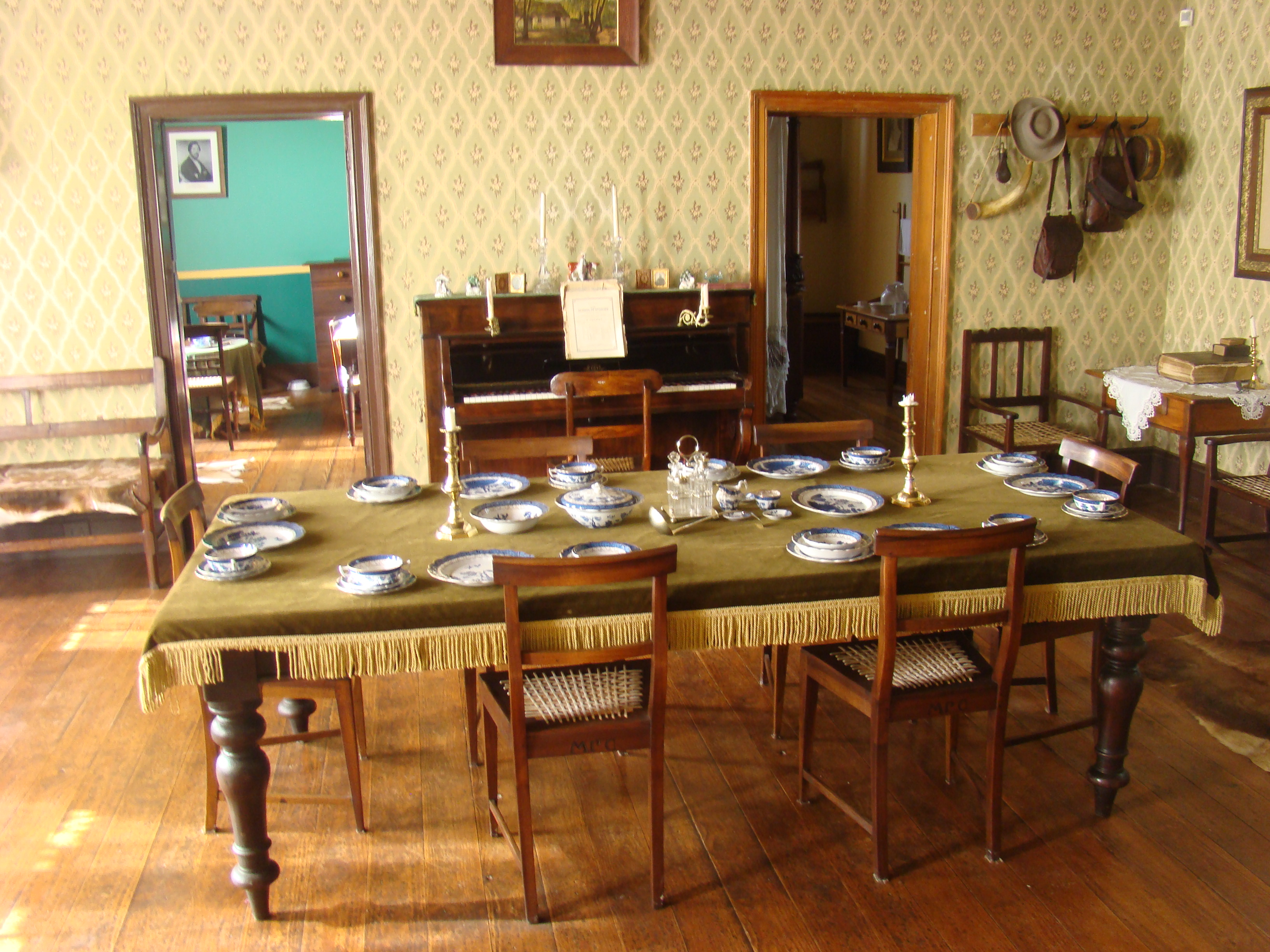 The front room served as living room and dining room.It is also here that three state dinners was held in 1857,1860 and in 1862.The first war council of the Transvaal War(1880-1881) was held here,presided over by General Piet Cronje